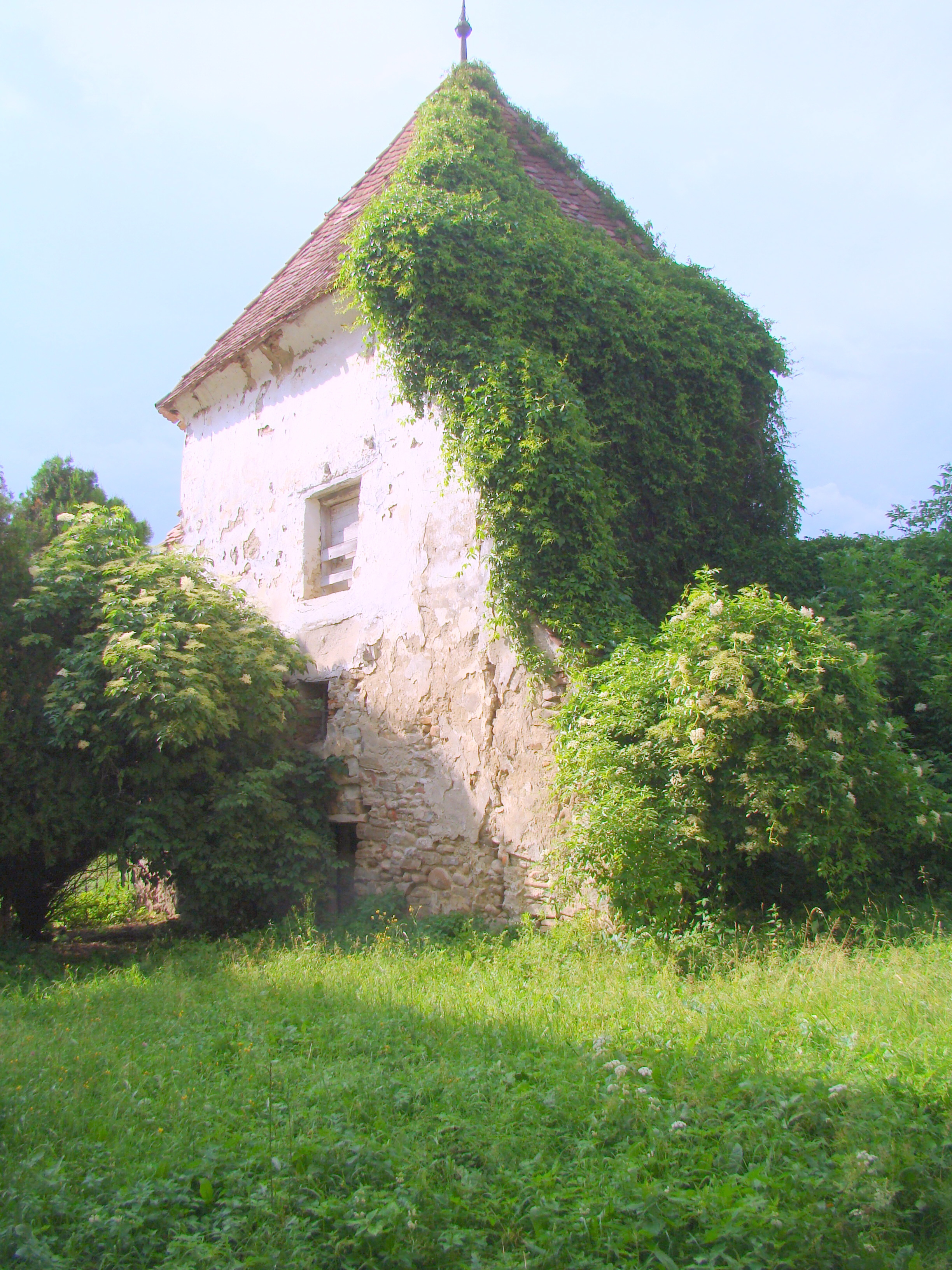 Lutheran church in Beia, Braşov county, Romania